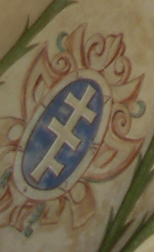 Pilawa coat of arms in Baranow-Sandomierski castle. Detail of Image:Baranów Sandomierski - castle 11.JPG full resolution, by User:Piotrus and tagged with the same “self2.GFDL.cc-by-sa-2.5,2.0,1.0” license.